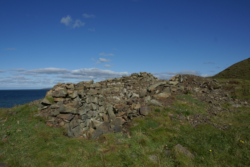 Doon Castle Broch, Ardwell Point, Dumfries and Galloway, Scotland. View from south.